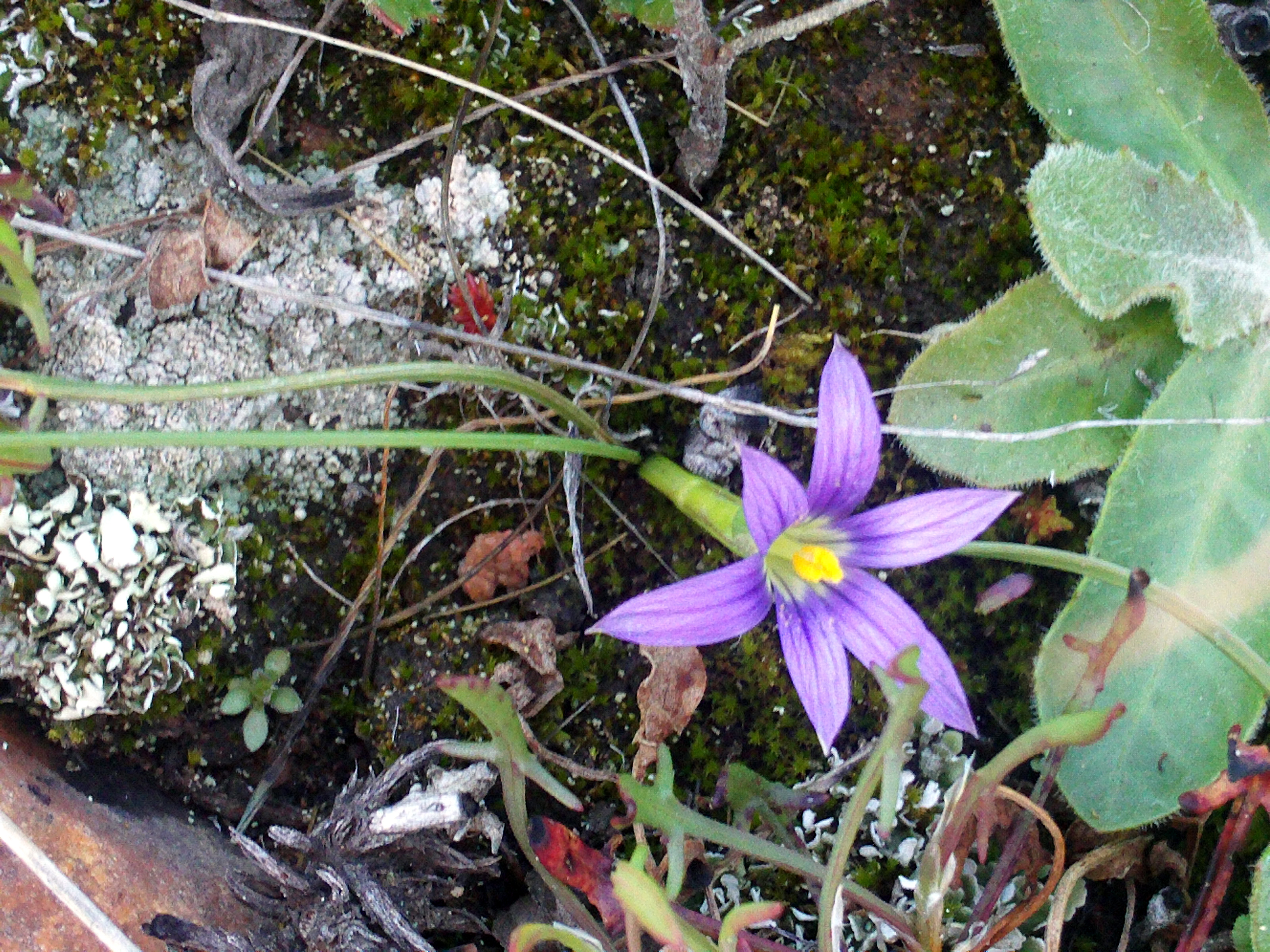 Romulea ramiflora flower close up, Dehesa Boyal de Puertollano, Spain